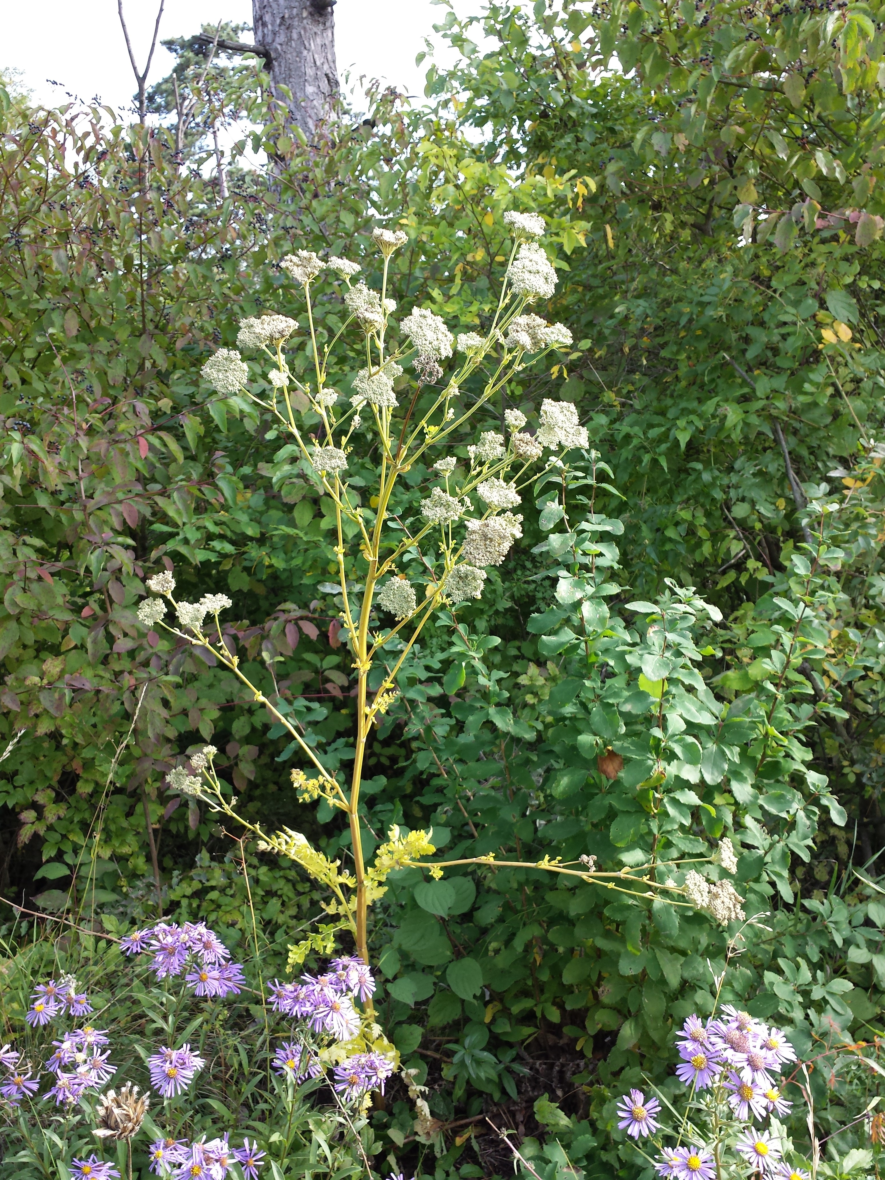 Habitus Taxon: Seseli libanotis subsp. intermedium (sensu Fischer et al. EfÖLS 2008, det. M. A. Fischer 2013-09-22) Location: Bisamberg near Vienna, district Korneuburg, Lower Austria - ca. 350 m a.s.l. Habitat: edge of a forest